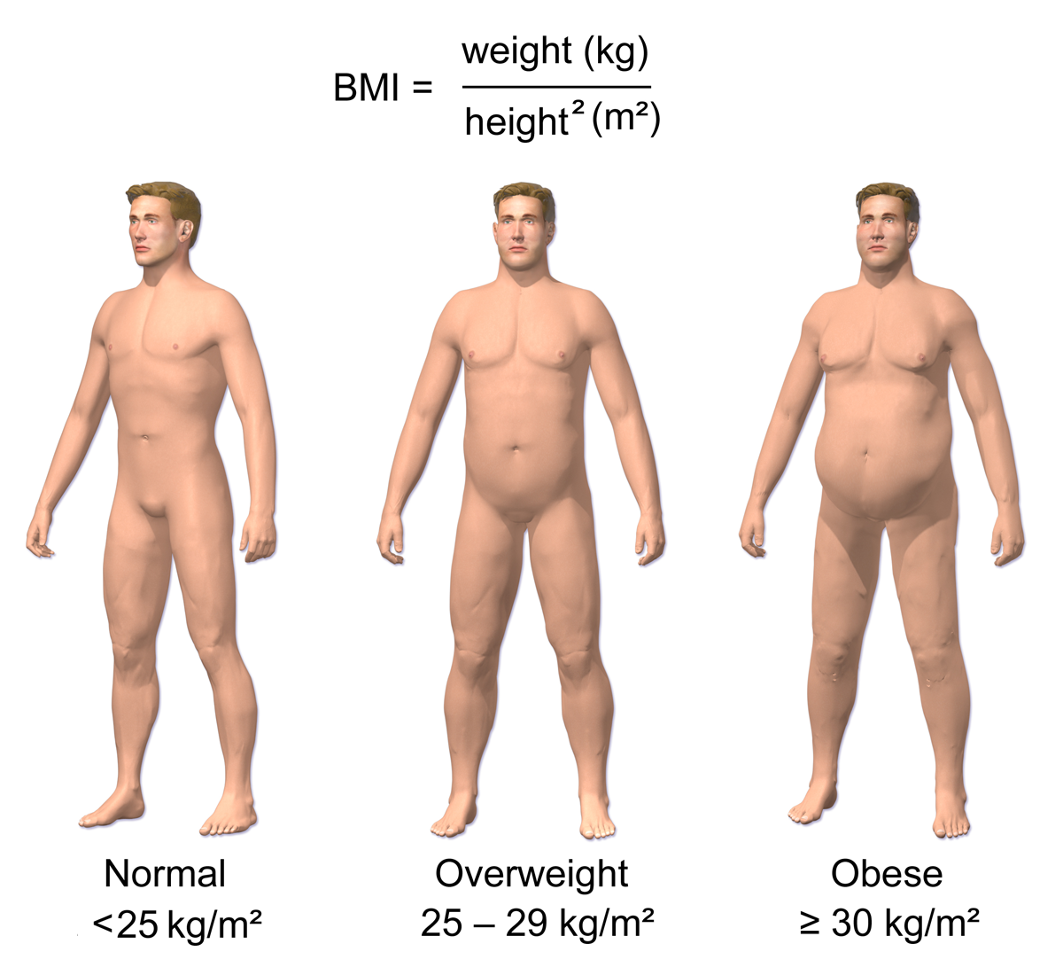 Obesity & BMI. See a full animation of this medical topic.